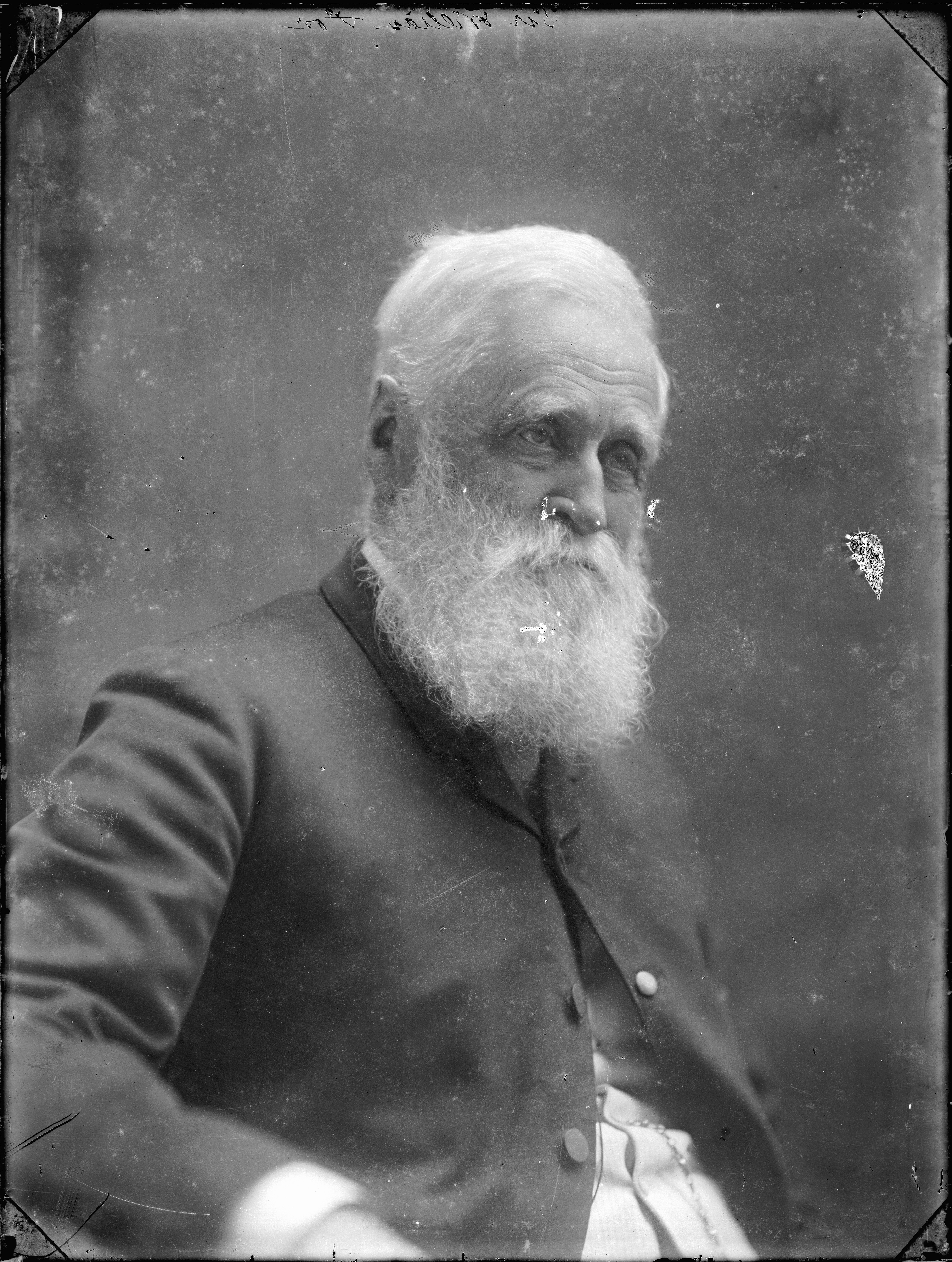 Sir William Fox, ca 1890 Photographer: Herman John Schmidt Reference Number: 1/1-001321-G Gelatin dry plate negative Photographic Archive, Alexander Turnbull Library